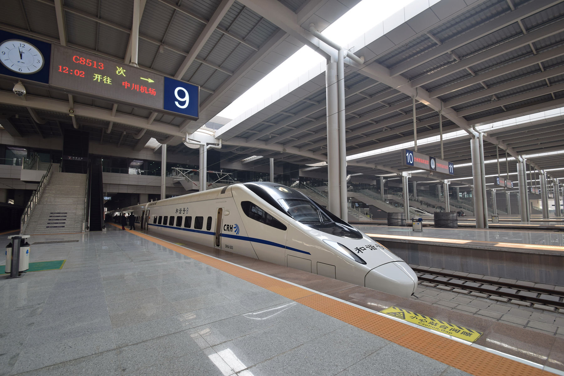 C8513 Lanzhou-Zhongchuan Airport Intercity Railway CRH5A EMU @ Lanzhou Xi (West) Railway Station